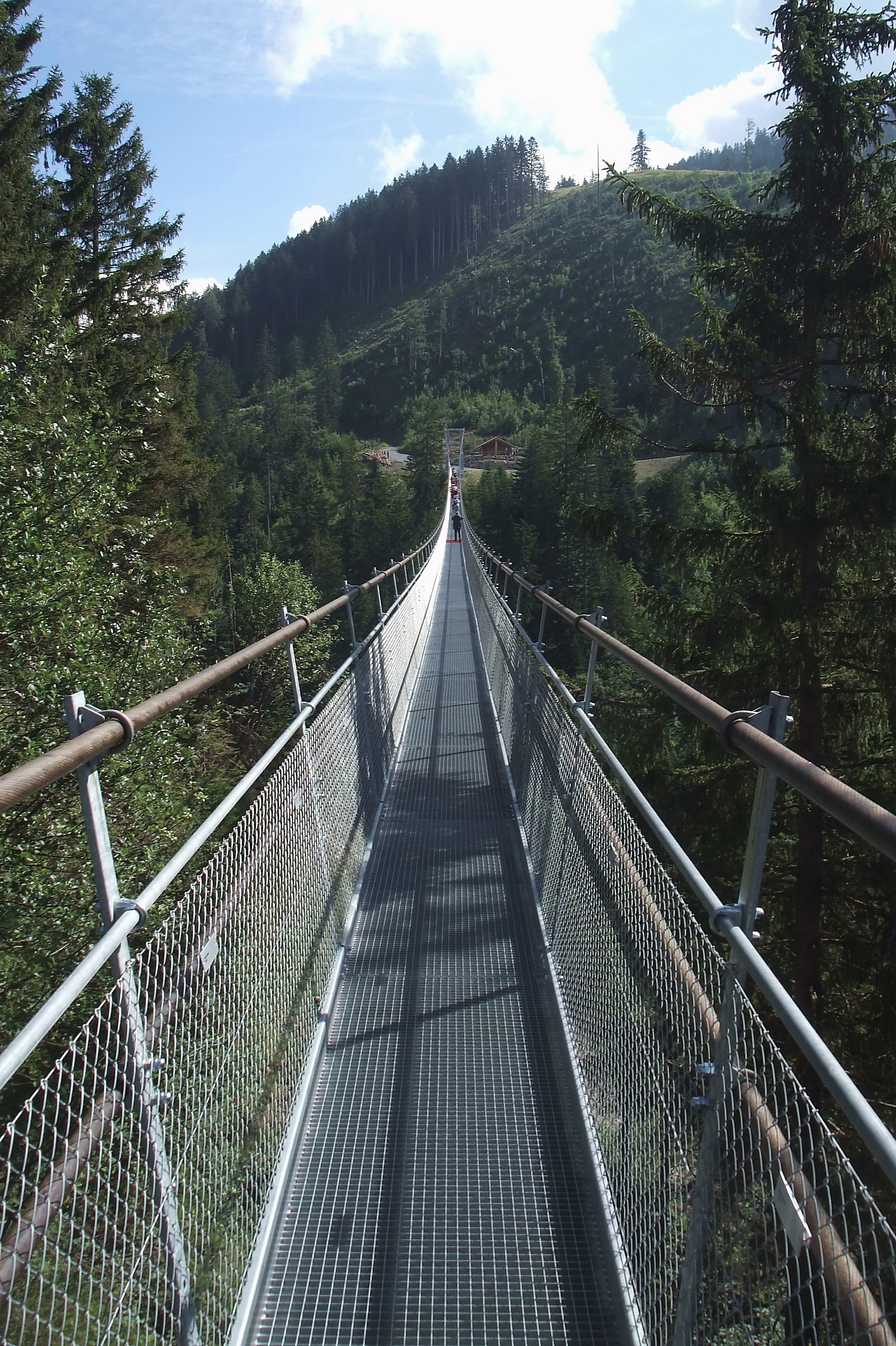 Swiss Suspension Bridge / On the longest suspension bridge for pedestrians outside of Asia with a length of 374 m (1227 ft). For a world record it was not enough. The bridge has a width of 90 cm (3 ft), and at both ends as entrance a width of 1.8 m (6 ft) for a short distance. Sattel SZ, Switzerland, August 4, 2010.